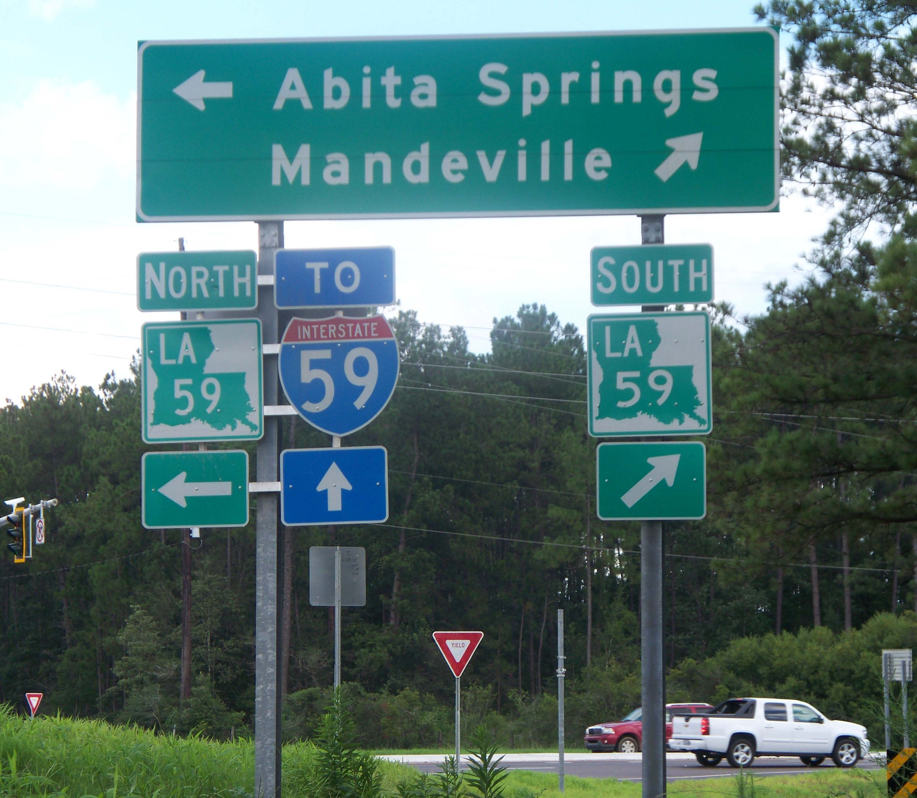 Bottom ramp eastbound on Interstate Highway 12 at Louisiana 59. Note the sign for Interstate 59, to clarify that drivers seeking that "59" should continue on (east, toward Slidell) and not confuse themselves into believing that LA 59 is I-59.